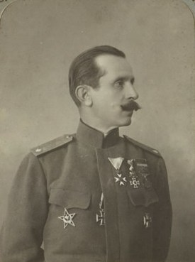 Nikola Zhekov. The album of the First World War on the 20th Invantry Regiment, Bulgaria. It was given by the commander of the regiment Ivan Kirpikov to Prince Cyril Preslavski, the head of the regiment.